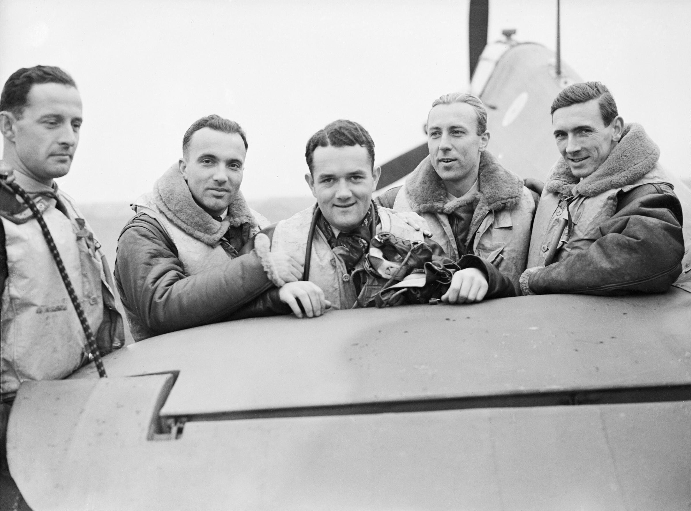 A group of pilots of No. 303 Polish Fighter Squadron RAF stand by the tail elevator of one of their Hawker Hurricane Mark Is at Northolt, Middlesex. They are (left to right): Pilot Officer Mirosław Ferić, Flying Officers Bogdan Grzeszczak, Pilot Officer Jan Zumbach, Flying Officer Zdzisław Henneberg and Flight-Lieutenant John Kent, who commanded 'A' Flight of the Squadron at this time.